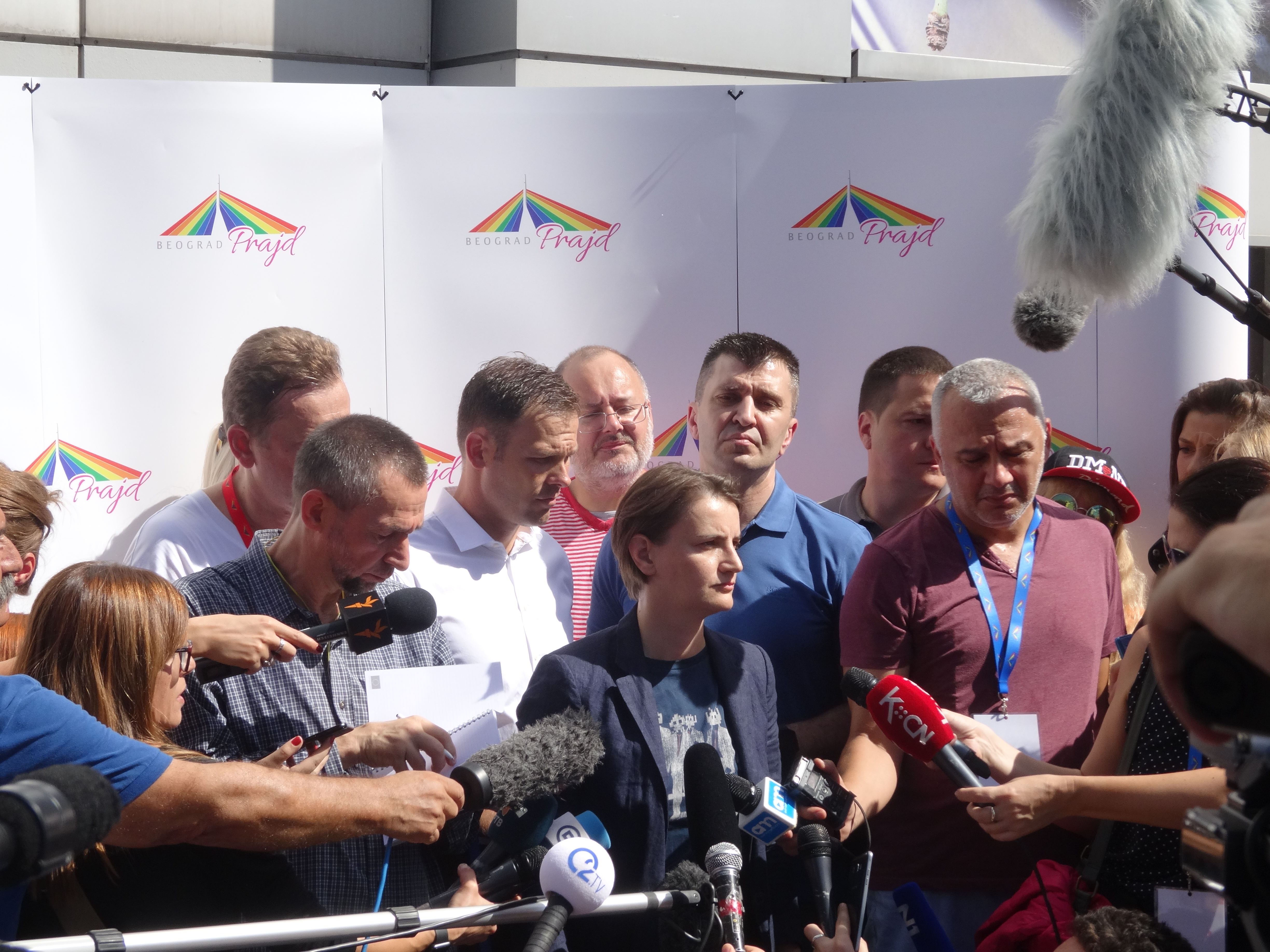 The Prime Minister of Serbia Ana Brnabić and the Mayor of Belgrade Siniša Mali.